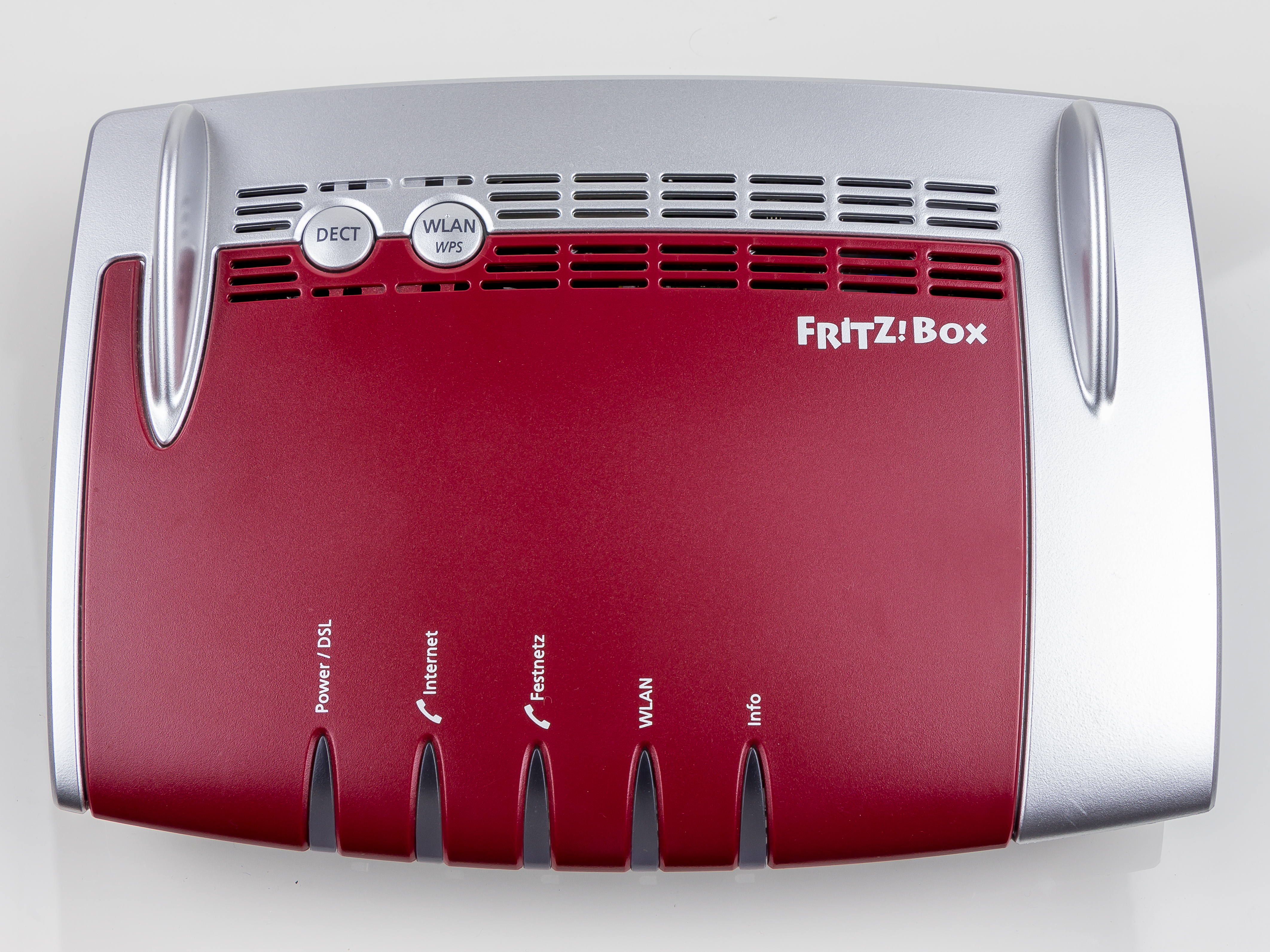 AVM DSL modem FRITZ!Box 7490